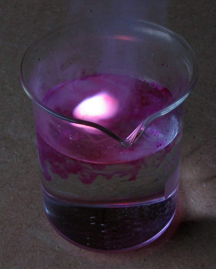 Potassium reacting violently with water. Hydrogen is formed that ignites with a lilac flame; the flame color owing to burning potassium vapor. Strongly alkaline potassium hydroxide is formed in solution, turning phenolphthalein indicator solution violet red.